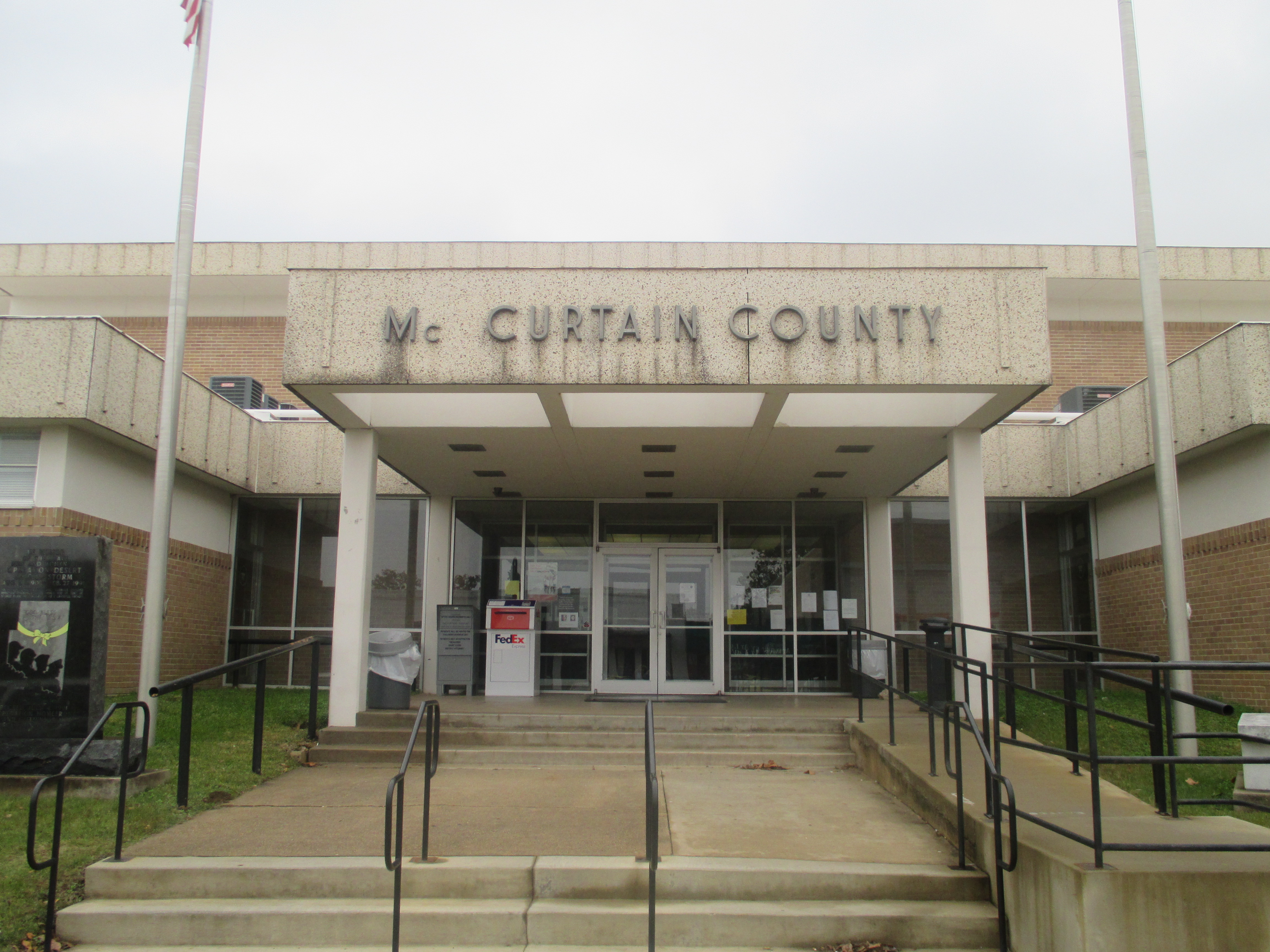 I took photo with Canon camera of McCurtain County Courthouse in Idabel, OK.